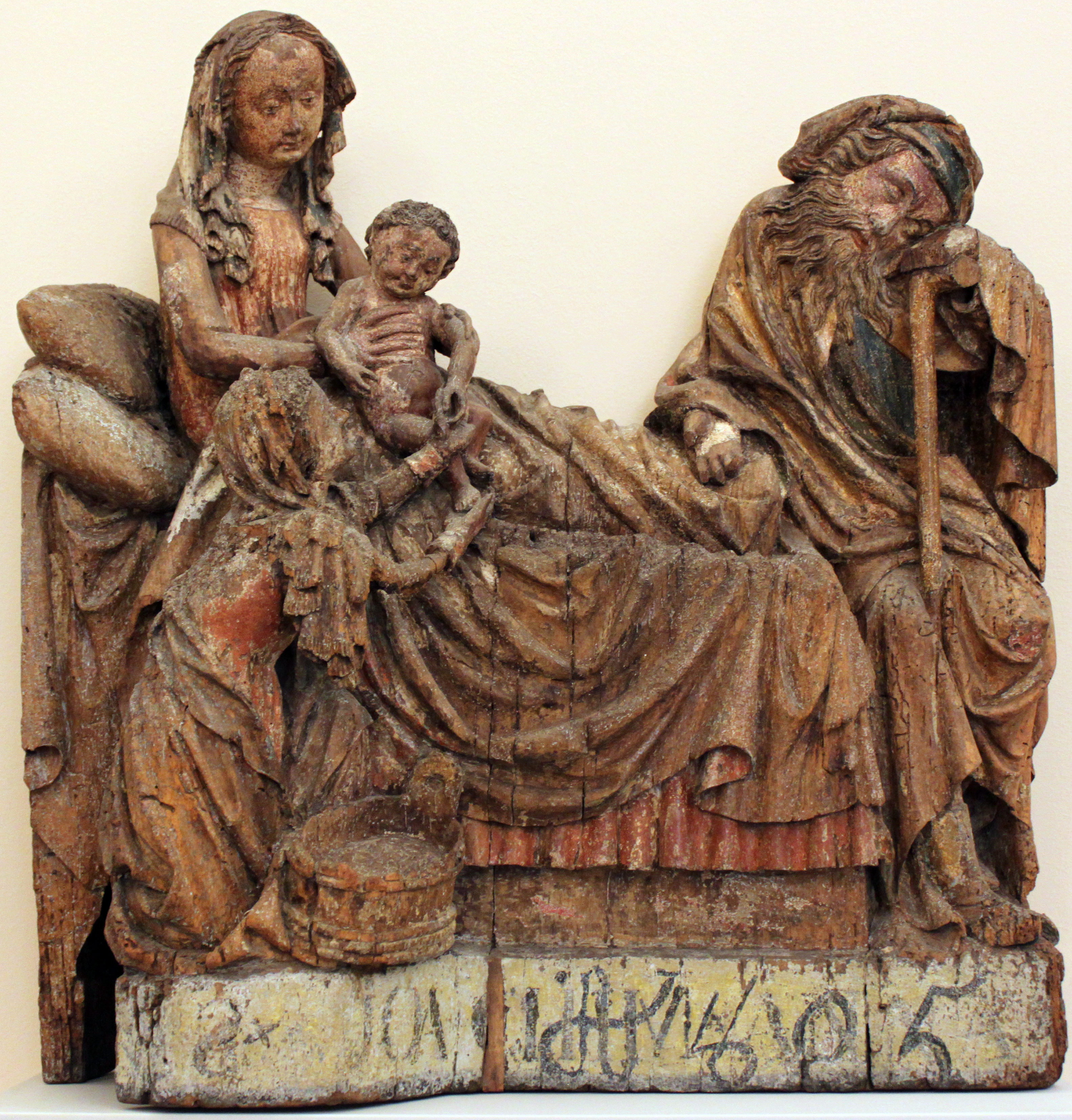 Nativity of Jesus Christ, ca. 1415, Skulpturensammlung (Inv. 5896), Bodemuseum Berlin